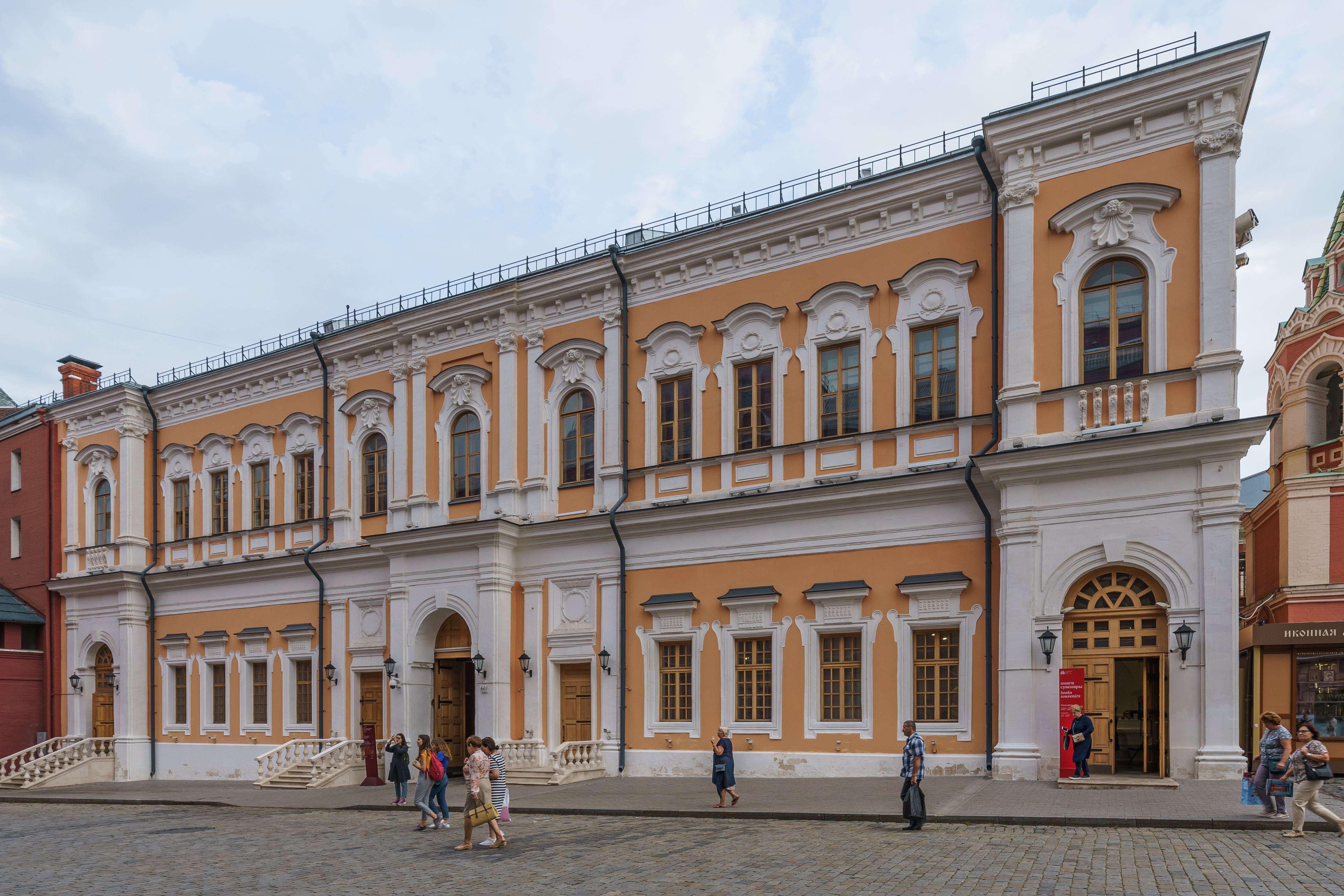 Former Red Mint in Moscow, Russia: outer view (Provincial Government building)